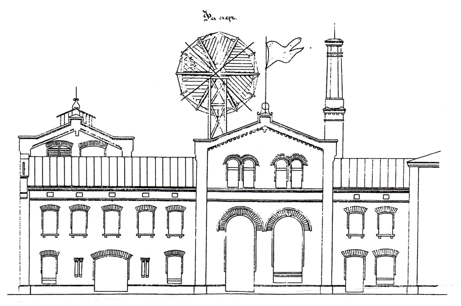 план 1891